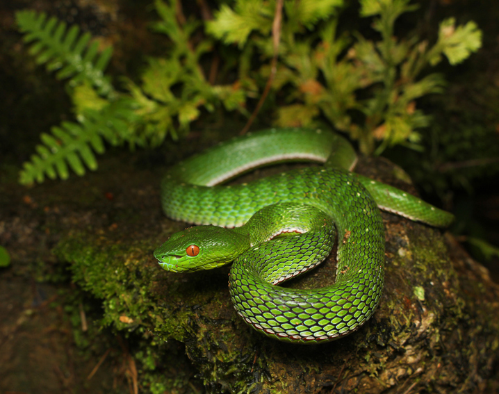 Trimeresurus vogeli from Bach Ma National Park